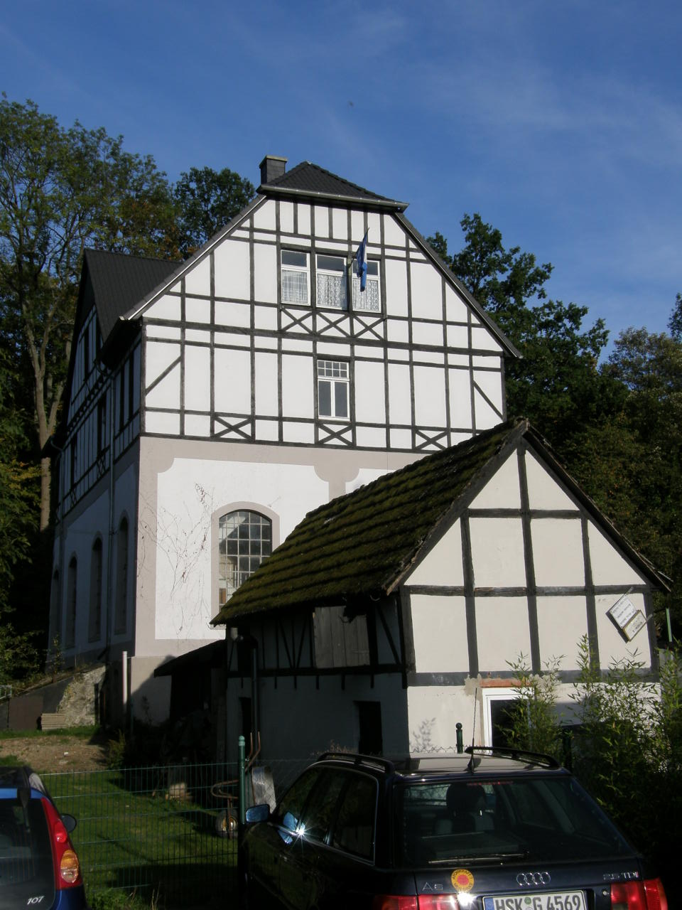 electric power station